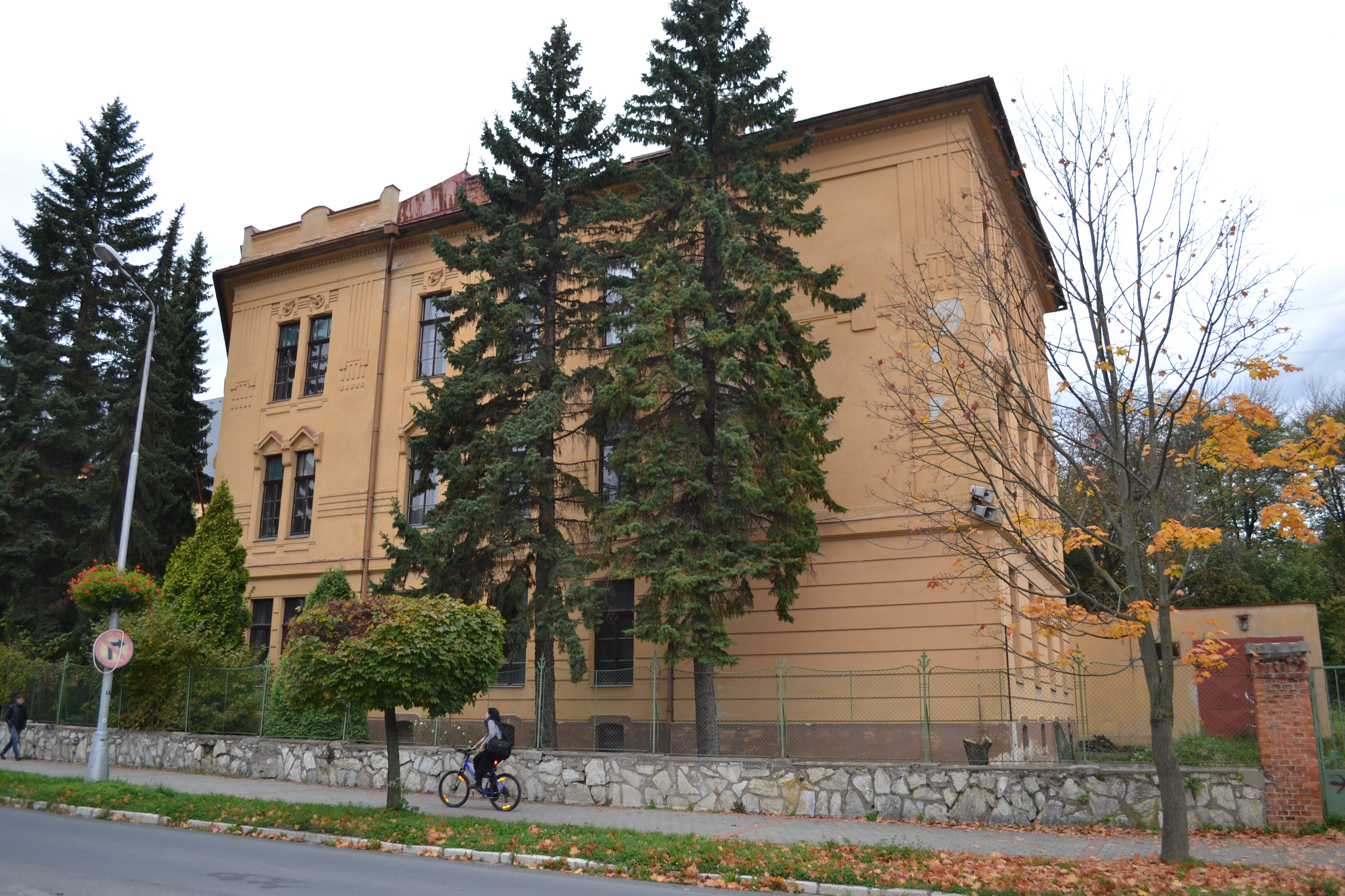 The memorial building, Skutecký Dominik street 11, Banská Bystrica